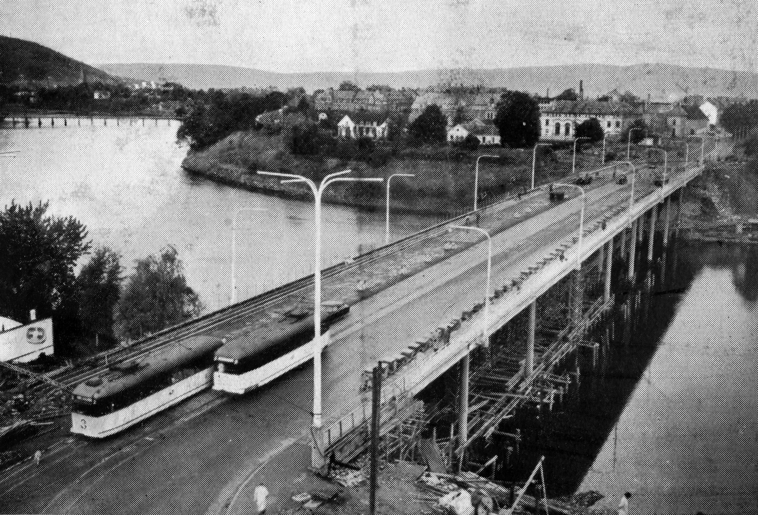 Format: Fotopositiv (Trykksak) Dato / Date: Juni 1951 Fotograf / Photographer: Ukjent Sted / Place: Elgeseter bru, Trondheim Eier / Owner Institution: Trondheim byarkiv, The Municipal Archives of Trondheim Arkivreferanse / Archive reference: Tor.H41.B29.F2255 Merknad: Fra fotoalbumet albumet Trondheim Sporvei 1901 - 1951. Kontrollørkontoret, Trondheim Sporvei.